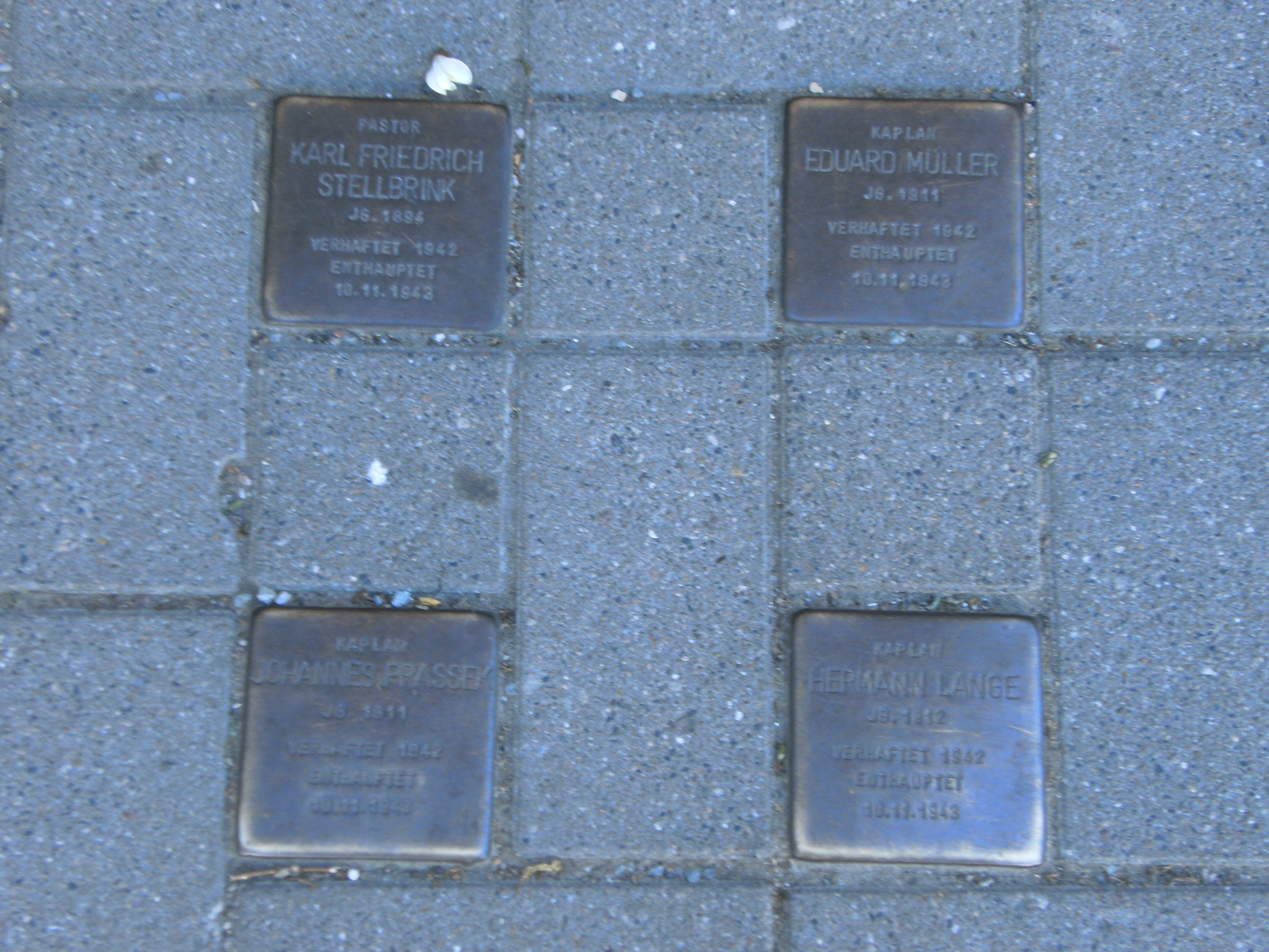 Hamburg, Germany, Untersuchungsgefängnis Holstenglacis, Holstenglacis 3: Stolperstein (German pronunciation: [ˈʃtɔlpɐˌʃtaɪn]; literally "stumbling stone", metaphorically a "stumbling block" for the Lübeck martyrs executed in the Untersuchungshaftanstalt Hamburg, Germany.